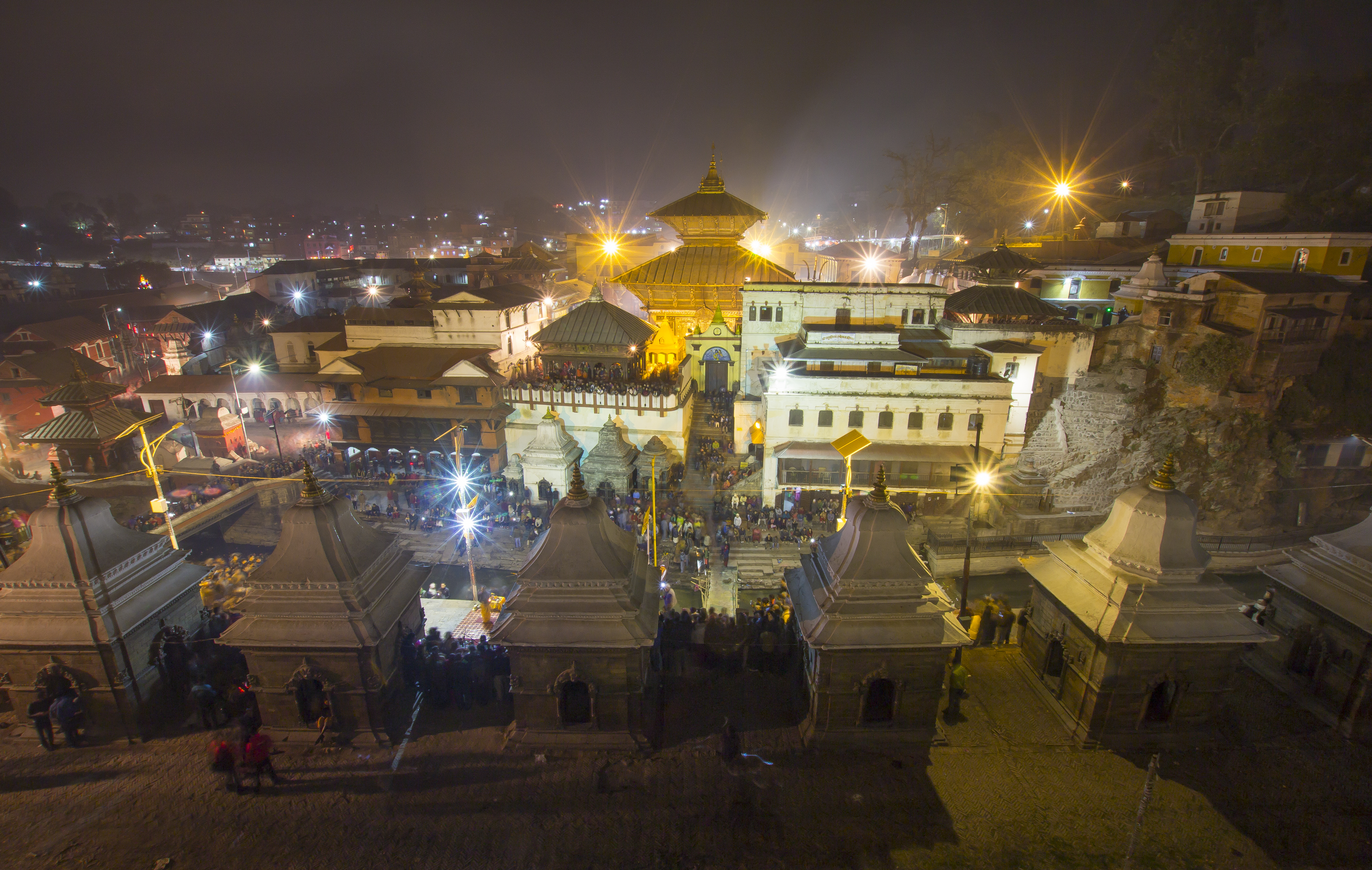 Mahashivaratri Festival or the ‘The Night of Shiva’ is celebrated with devotion and religious fervor in honor of Lord Shiva, one of the deities of Hindu Trinity. Maha Shivratri occurs on the 14th night of the new moon during the dark half of the month of Phalguna, which corresponds to the month of February – March in English Calendar. The Pashupatinath temple is the oldest Hindu temple in Nepal. Set along the banks of the Bagmati river Non-Hindu visitors are not allowed to enter the main temple. In Shivaratri Pashupatinatha temple has a big possession. Hindu devotees from all over Nepal and India visit Pashupatinath.